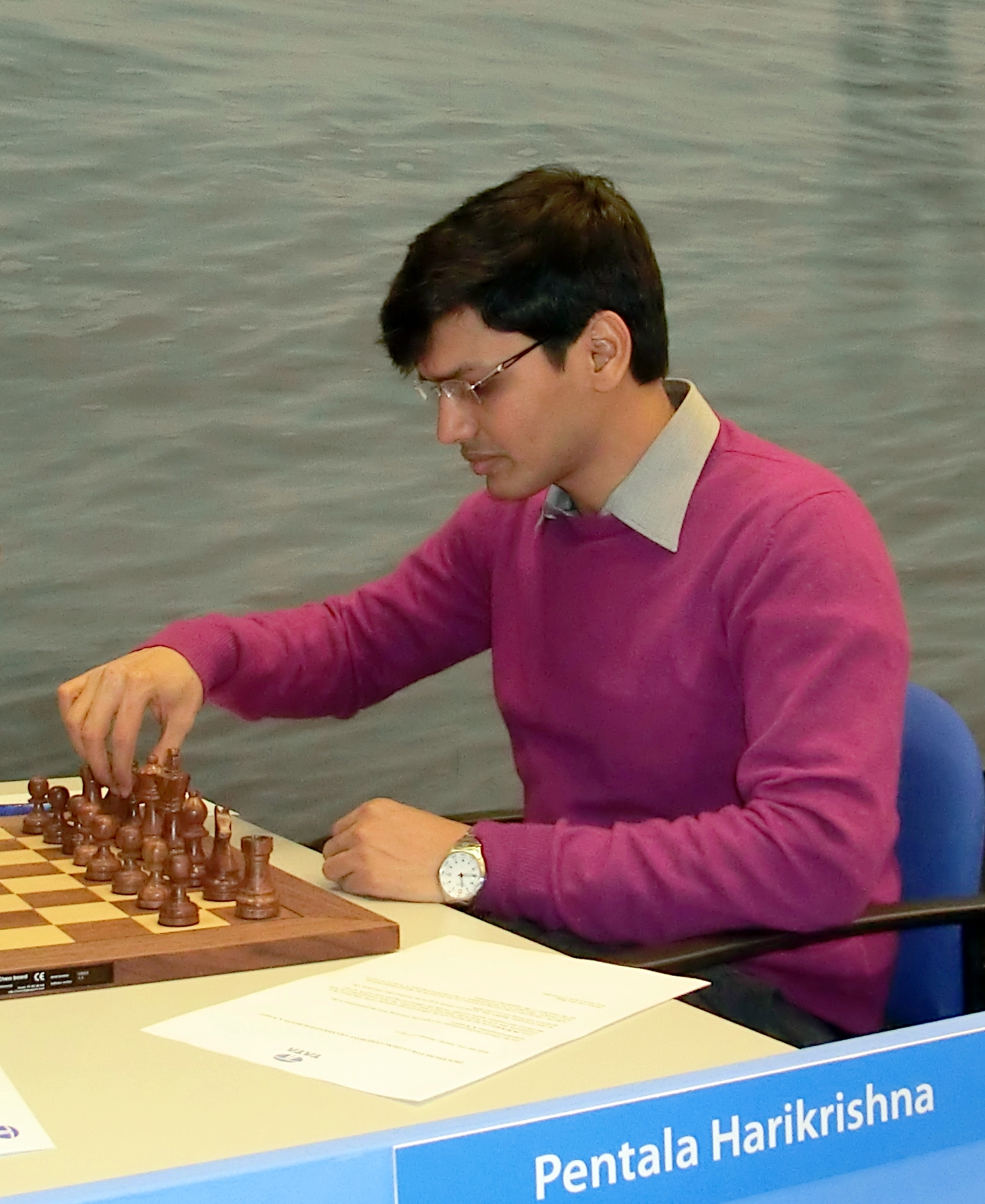 Pentala Harikrishna, chess grandmaster from India